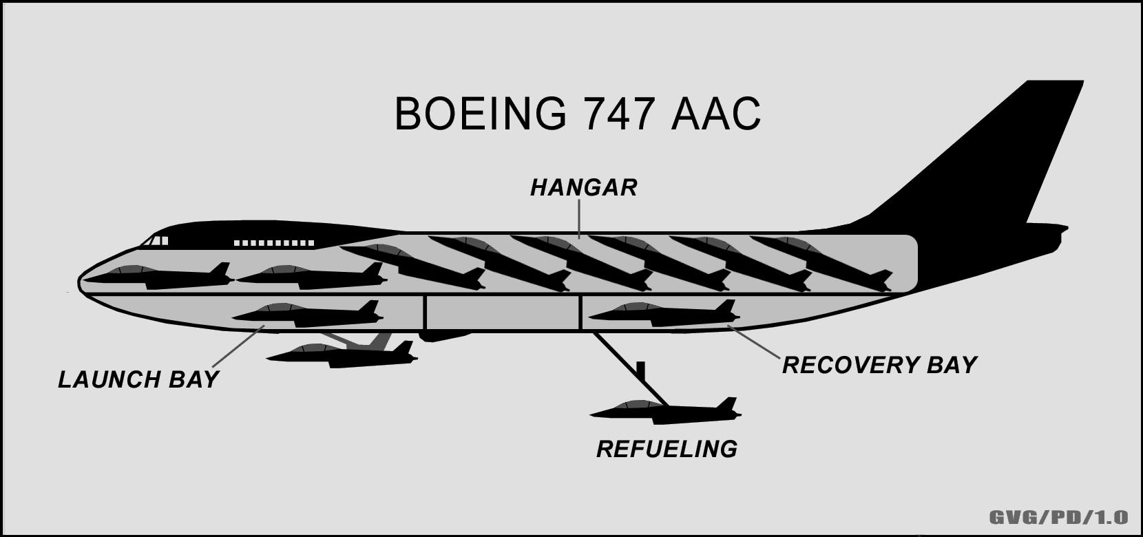 Boeing 747 Airborne Aircraft Carrier proposal - Work based on Greg Goebel / VectorSite image in The Public Domain